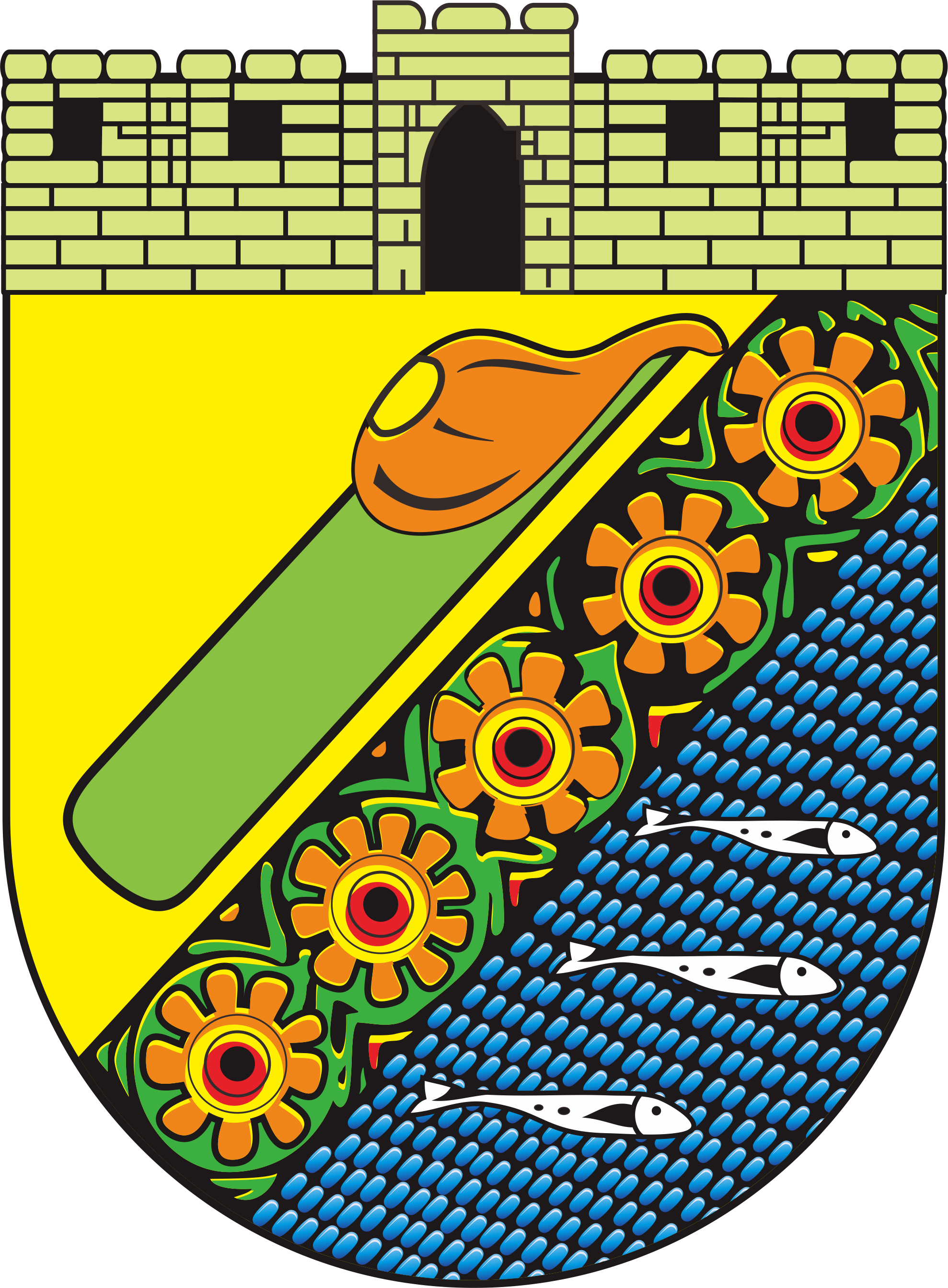 Coat of Arms (Lambang) of City (Kota) Pekalongan, Provinsi Jawa Tengah (Central Java), Indonesia